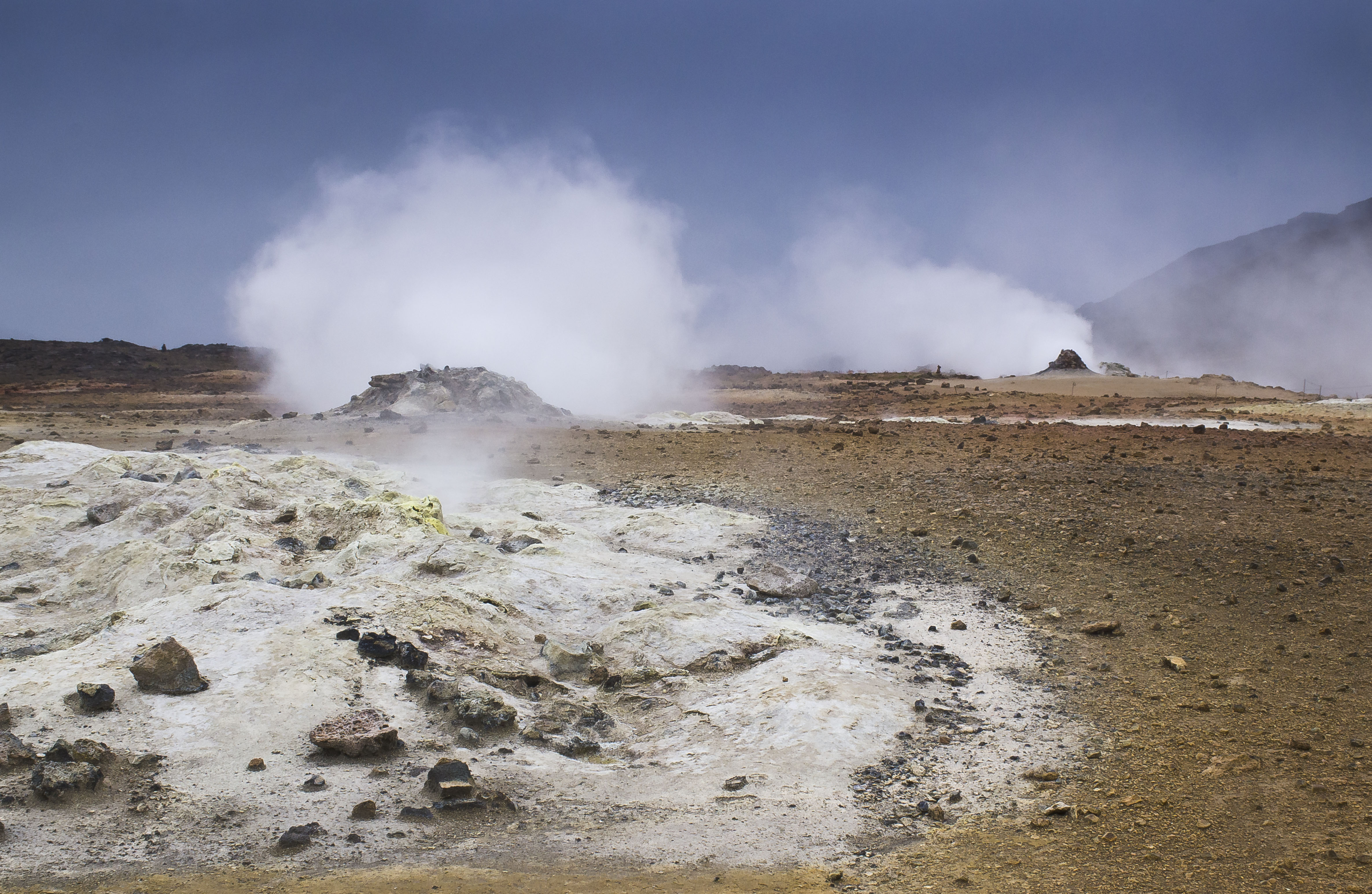 Fumaroles in the Hverarönd geothermal area, Iceland